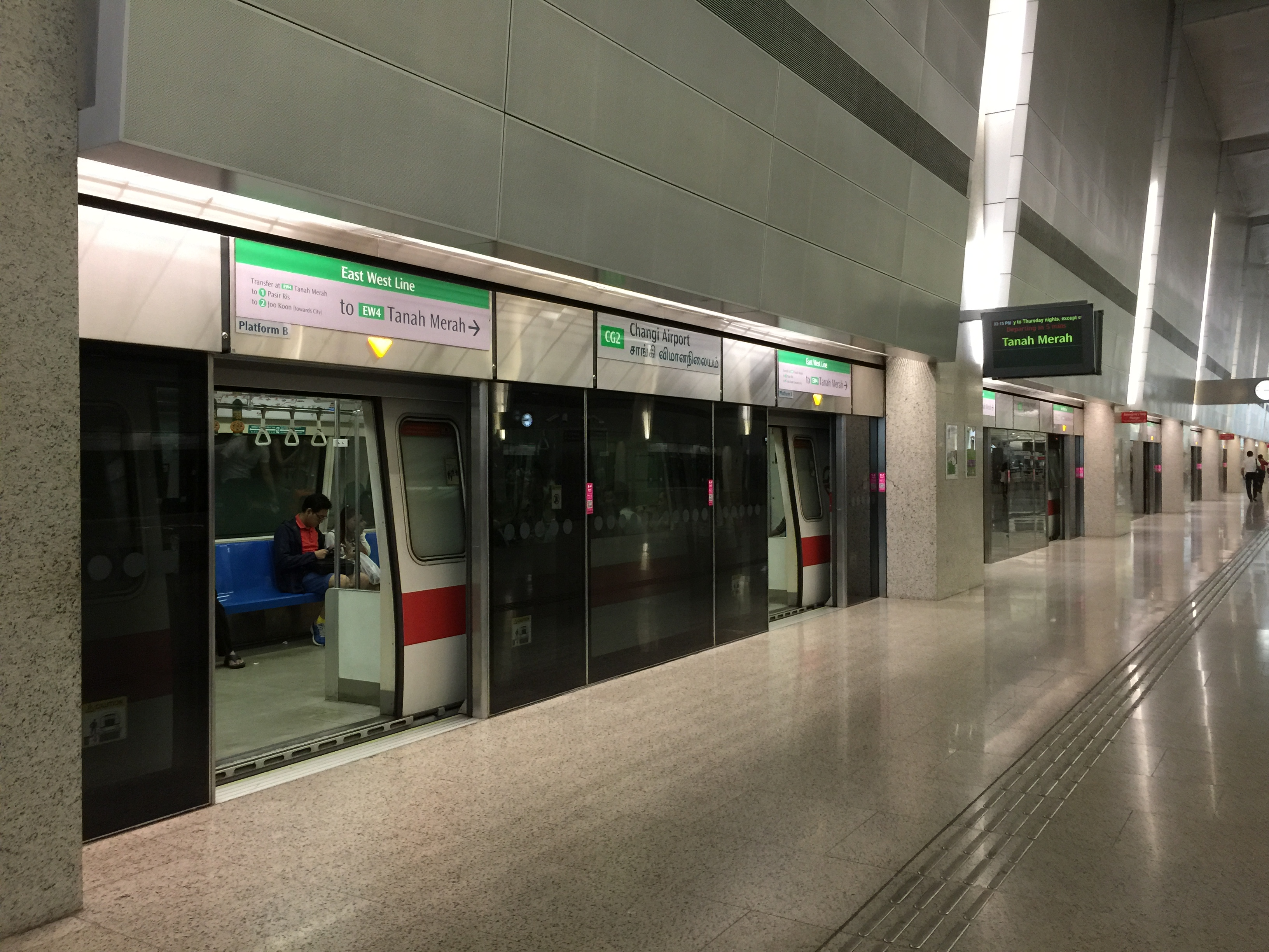 Changi Airport MRT Station - C651 Train at Platform B on the East West Line (Changi Branch).